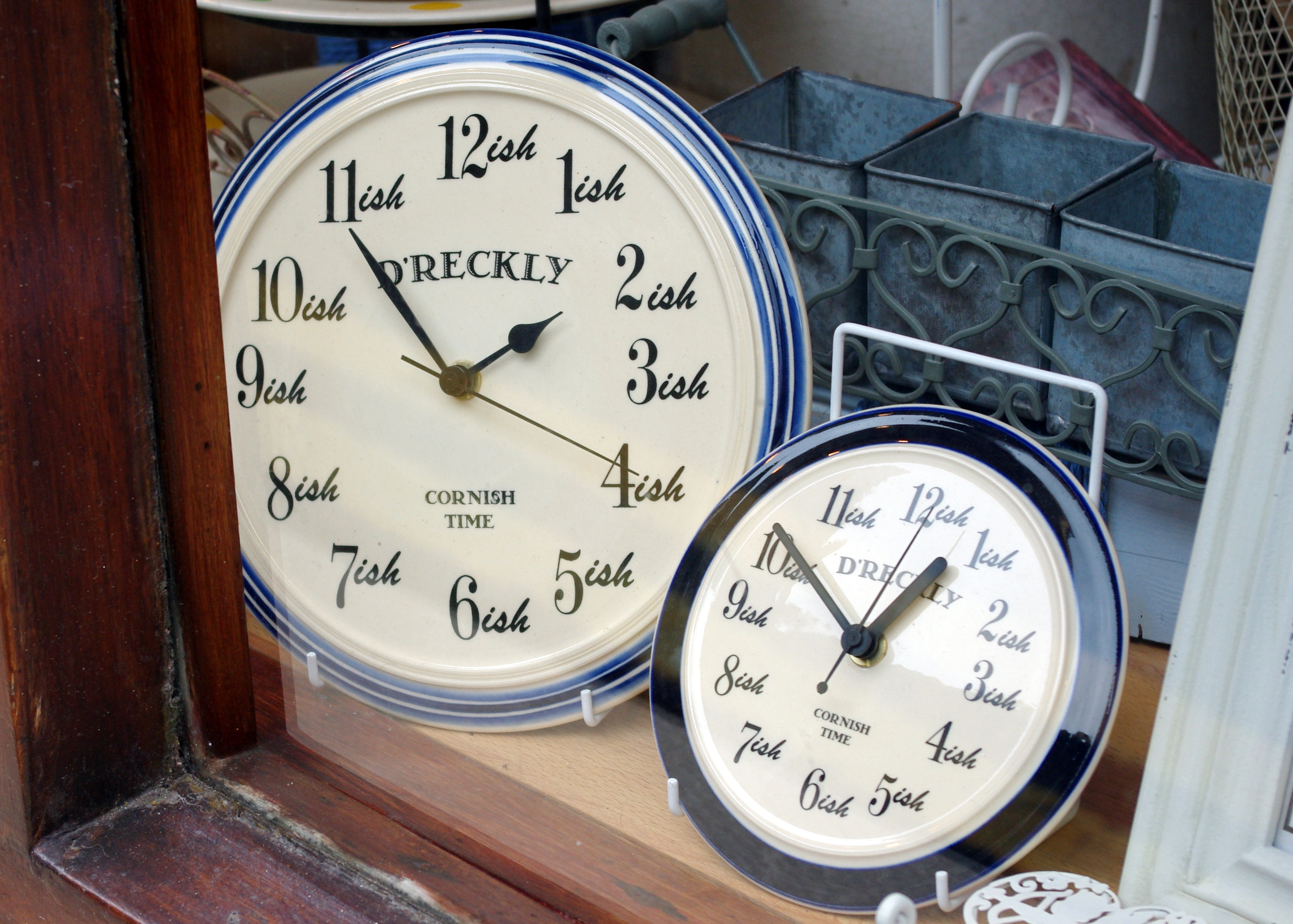 Clocks for sale in Cornwall, UK.